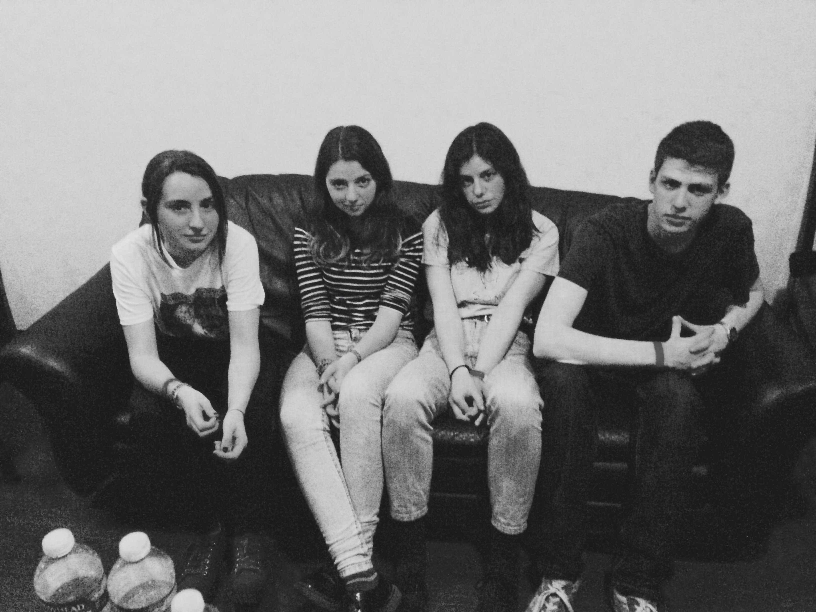 Last show in USA. April 2015